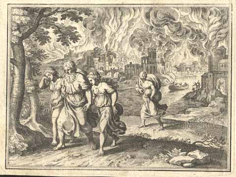 Escape of Lot from Sodom (detail), by Matthäus Merian (1593-1650)